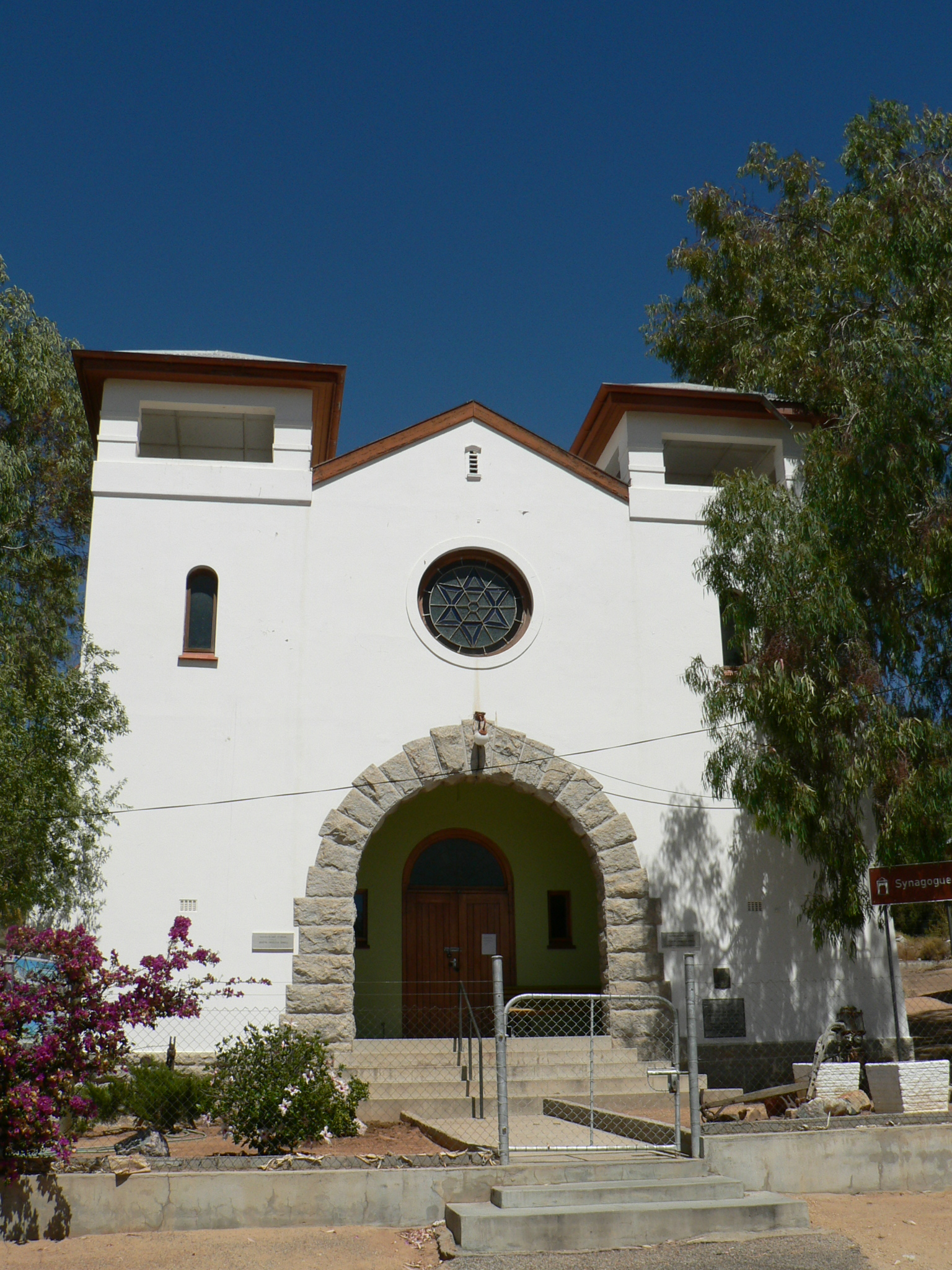 This media shows a South African Protected Site with SAHRA file reference 9/2/066/0021.